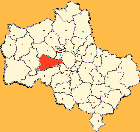 Moscow Region map by Al Silonov